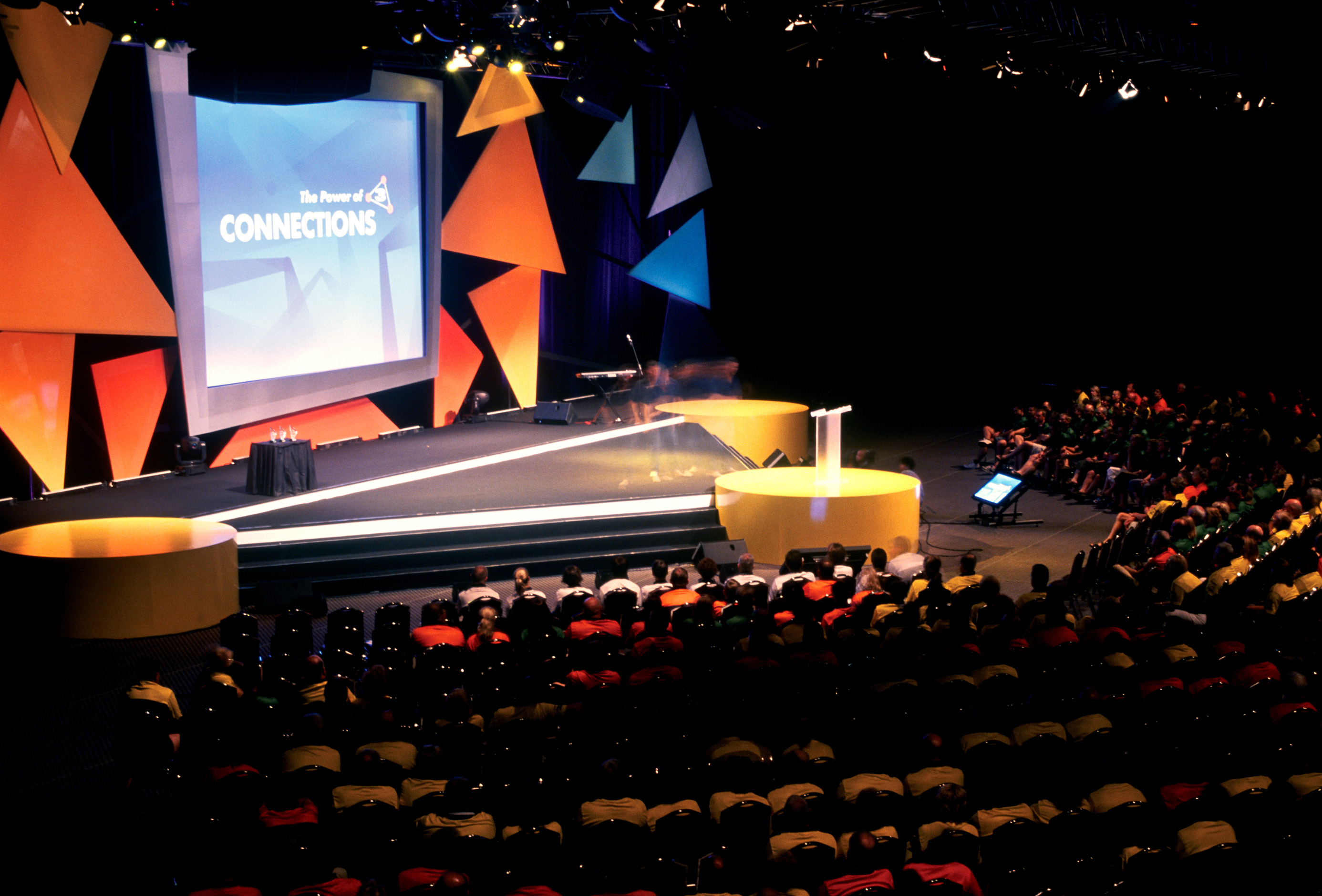 Conference at PEACH